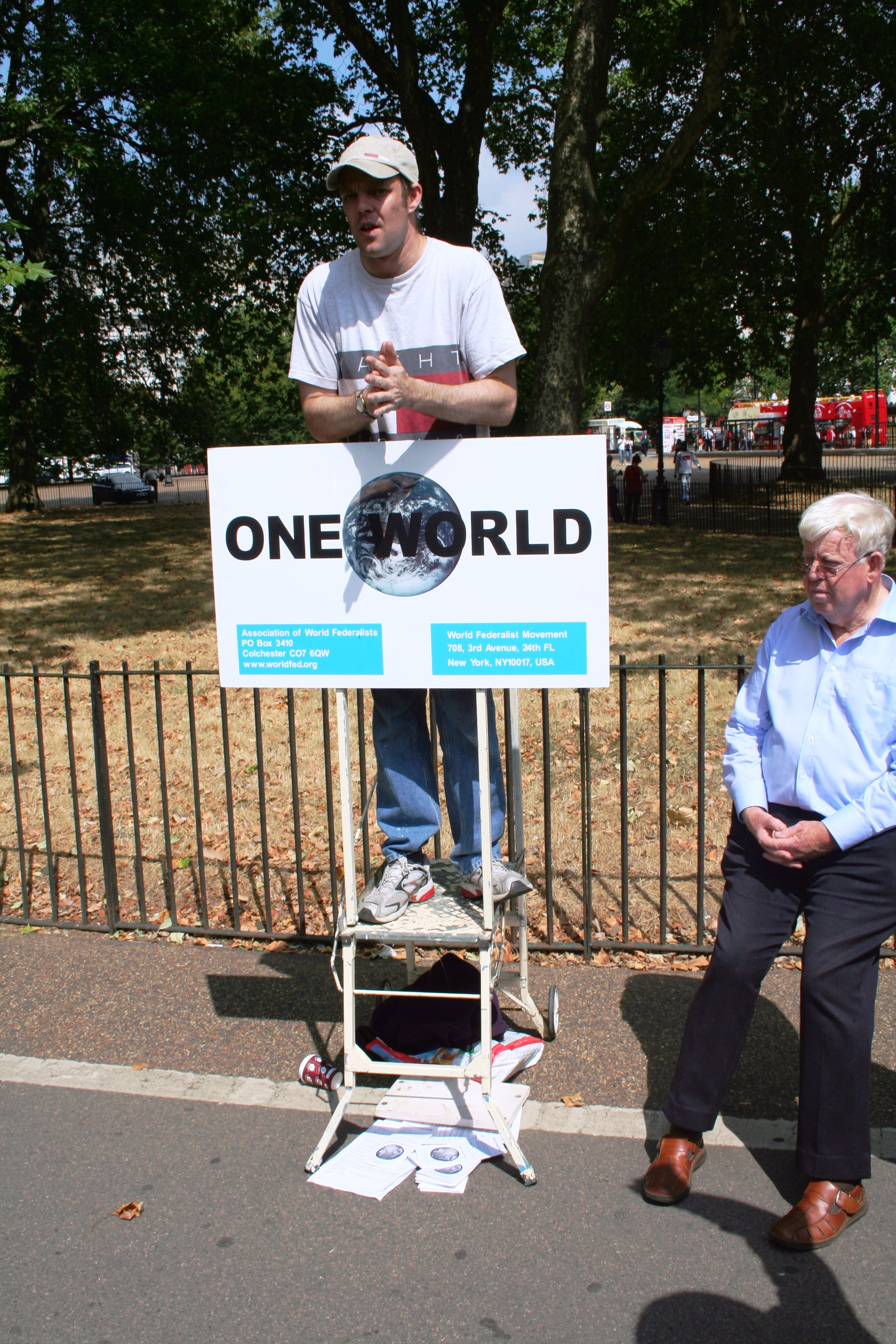 A speaker at the Speaker's Cornor in the Hyde Park, London